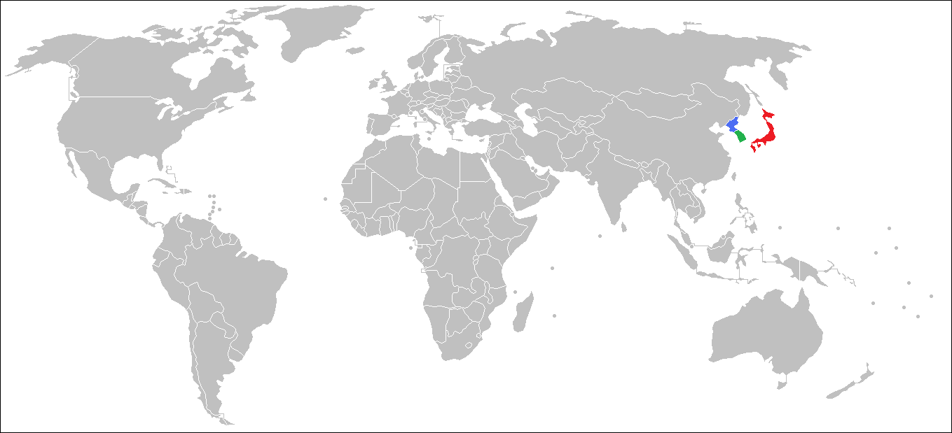 Locator of Japan, North Korea, and South Korea.